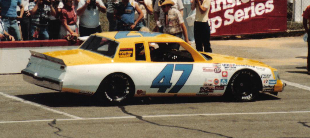 The Jack Beebe owned Race Hill Farm Buick #47 of Ron Bouchard. Bouchard was out of the race early. finishing 34th in the 1983 Van Scoy 500.